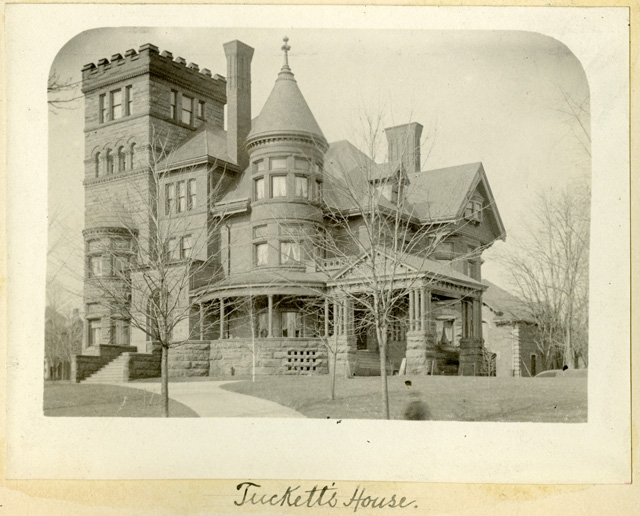 32022206624351 City of Hamilton Album. 1900-1901.